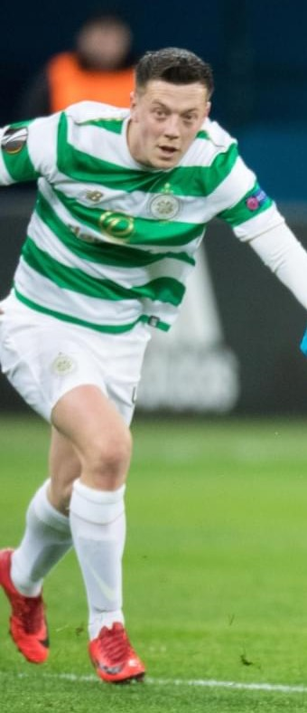 Callum McGregor